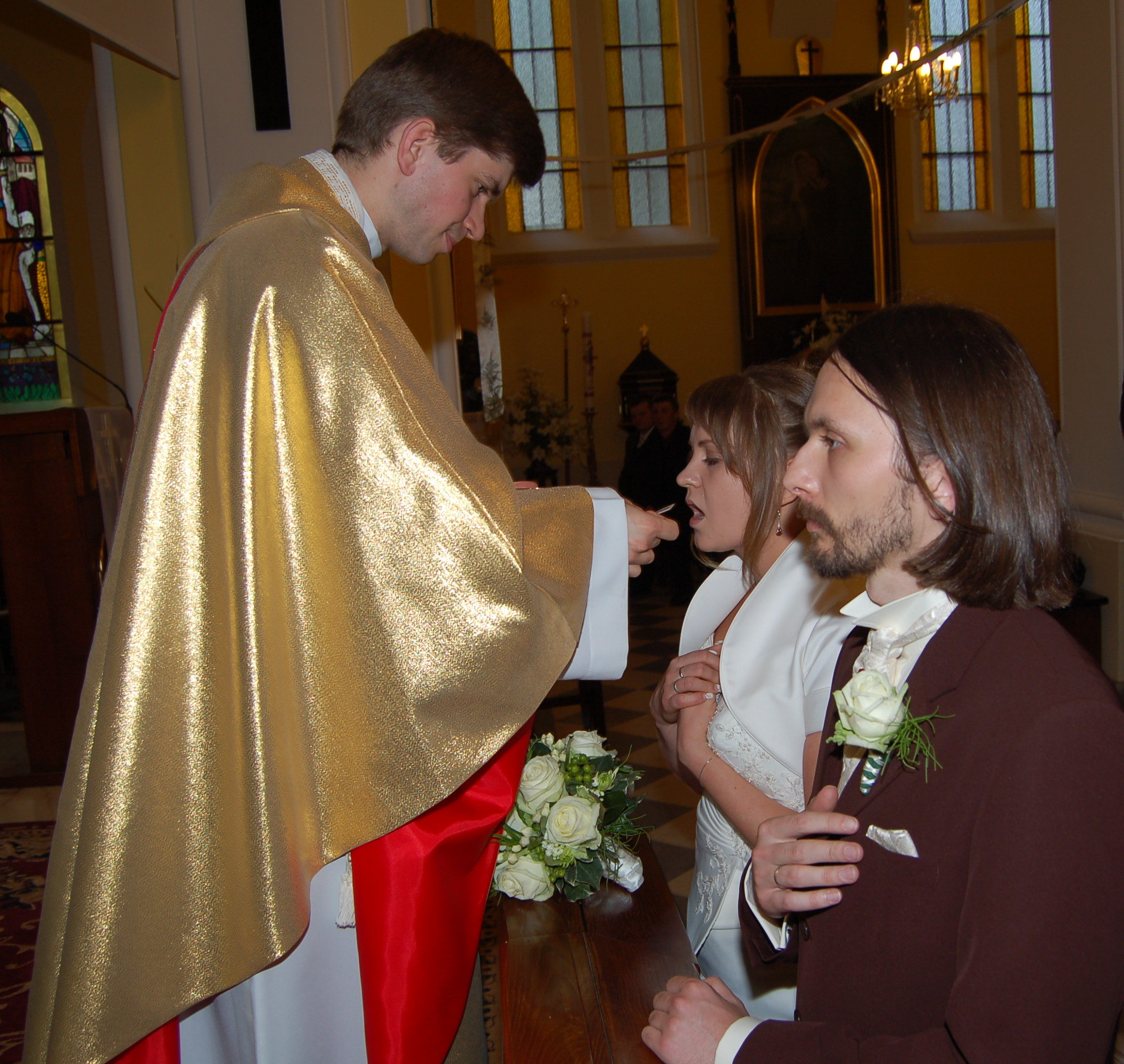 Ejdzej and Iric wedding photoRoman-catholic marraige communion